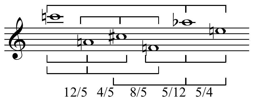 Tone proportions of Studie I. Don't know what the brackets mean.